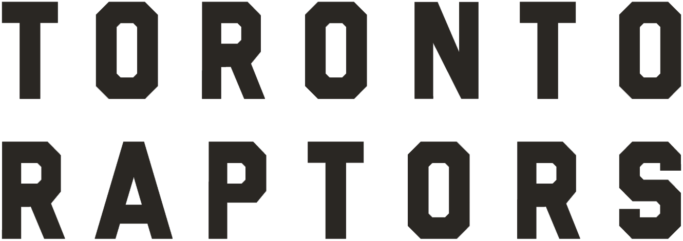 The current wordmark logo of the Toronto Raptors. First used beginning with the 2015–16 NBA season.